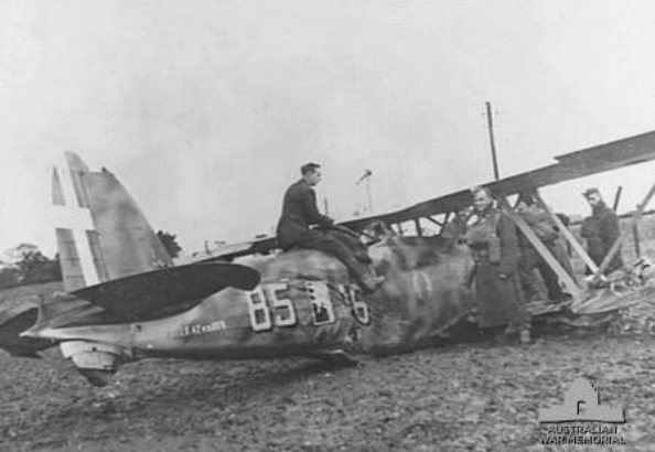 An Italian Fiat C.R. 42 Falco fighter (85-16, s/n MM.6976, 18° Gruppo/85a Squadriglia/Stormo 56°) which had crashed at Lowestoft, Suffolk (UK) on 1430 hrs, 11 November 1940. The pilot, Sergente Antonio Lazzari, evaded three Hawker Hurricanes until the variable pitch gear of the propeller jammed, leaving one of the three blades at a different pitch to the rest. Lazzari decided to land. Upon landing he ran over a railway line which caused the aircraft to crash into a field. Lazzari was was unhurt.